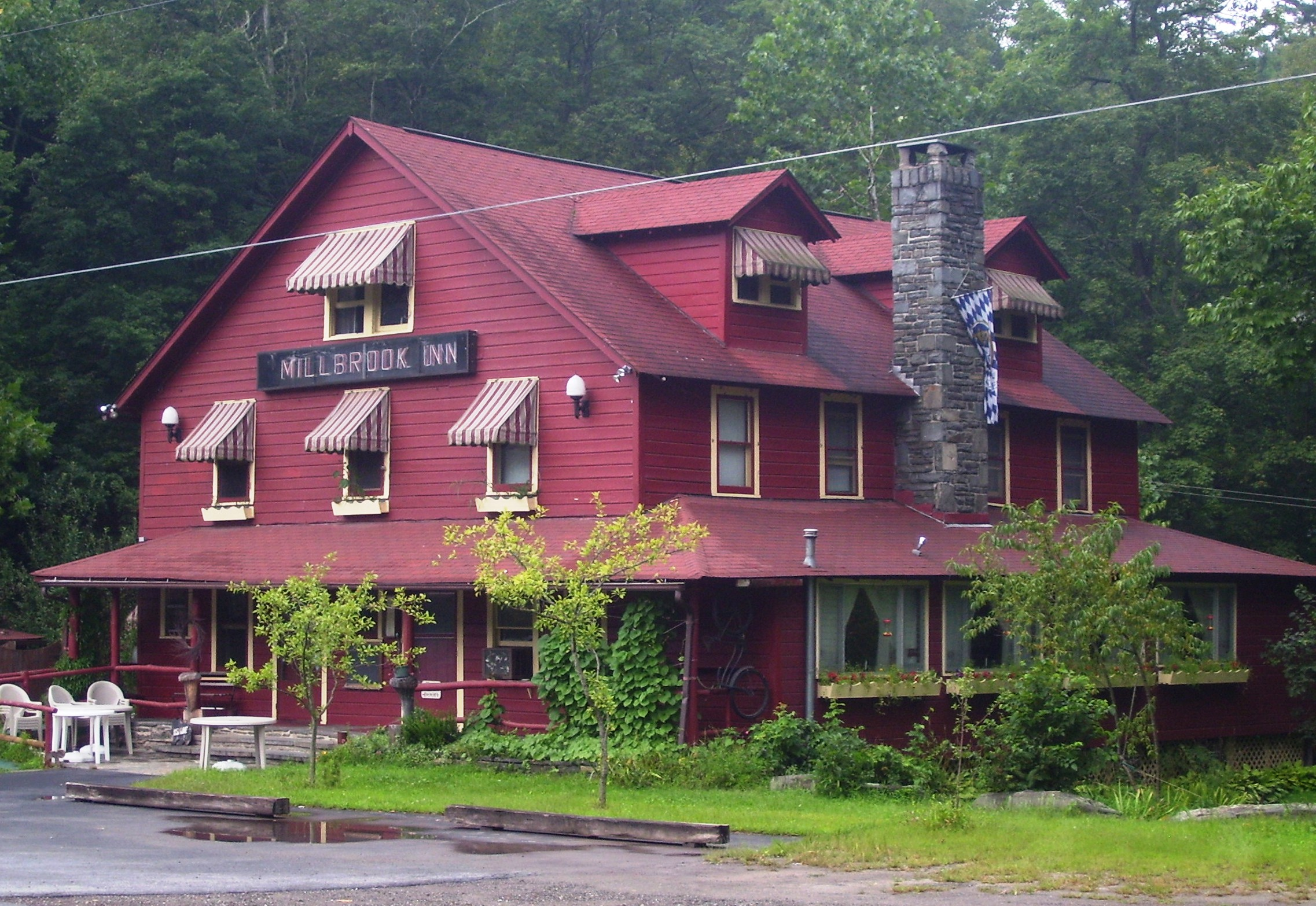 The Millbrook Inn, a bed and breakfast, restaurant and bar on Route 97 in Pond Eddy, New York, on the Delaware River.